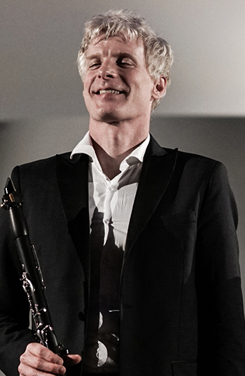 Martin Fröst at Hindsgavl Festival, Denmark 2017